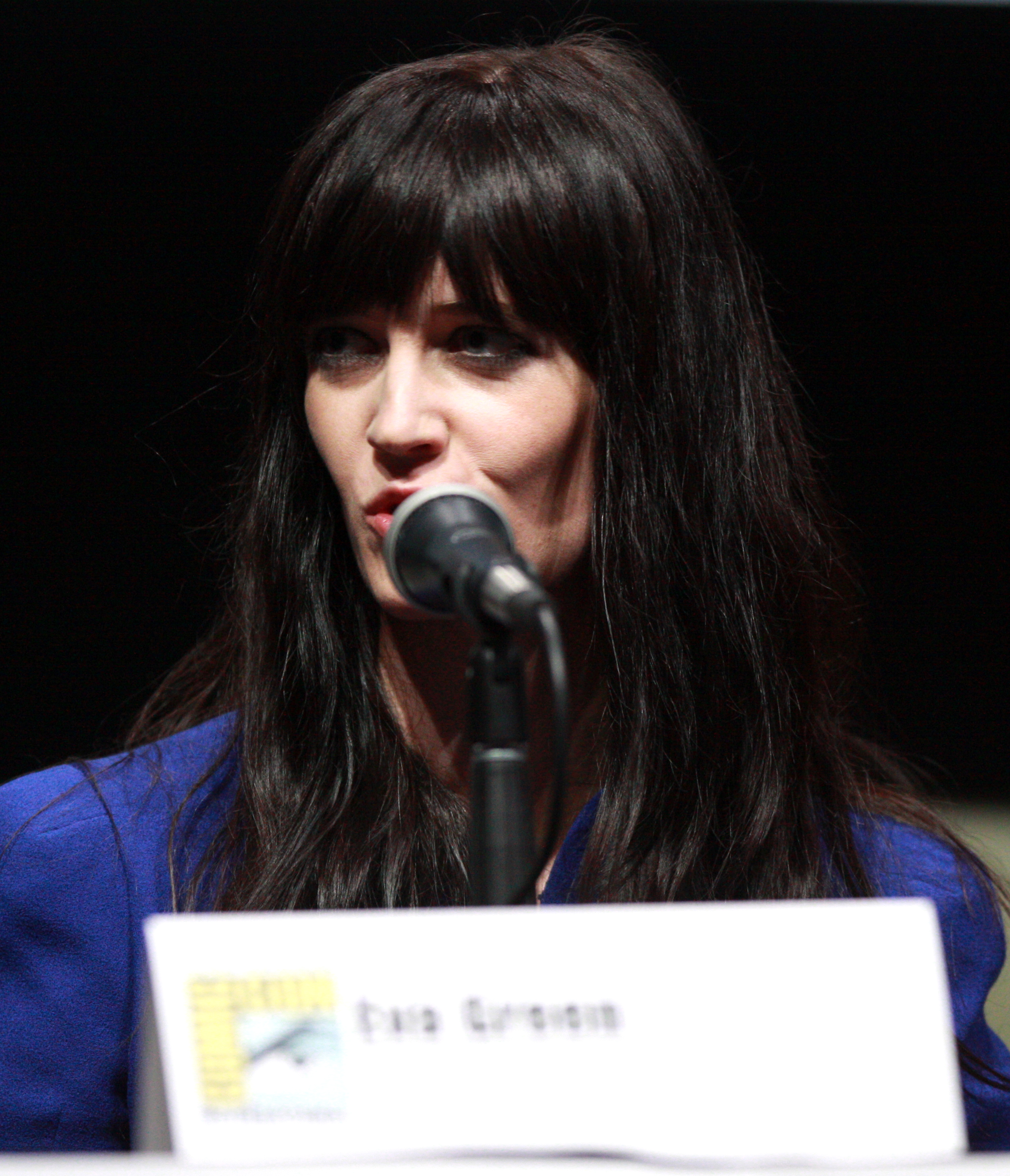 Eva Green at the 2013 San Diego Comic Con International in San Diego, California.